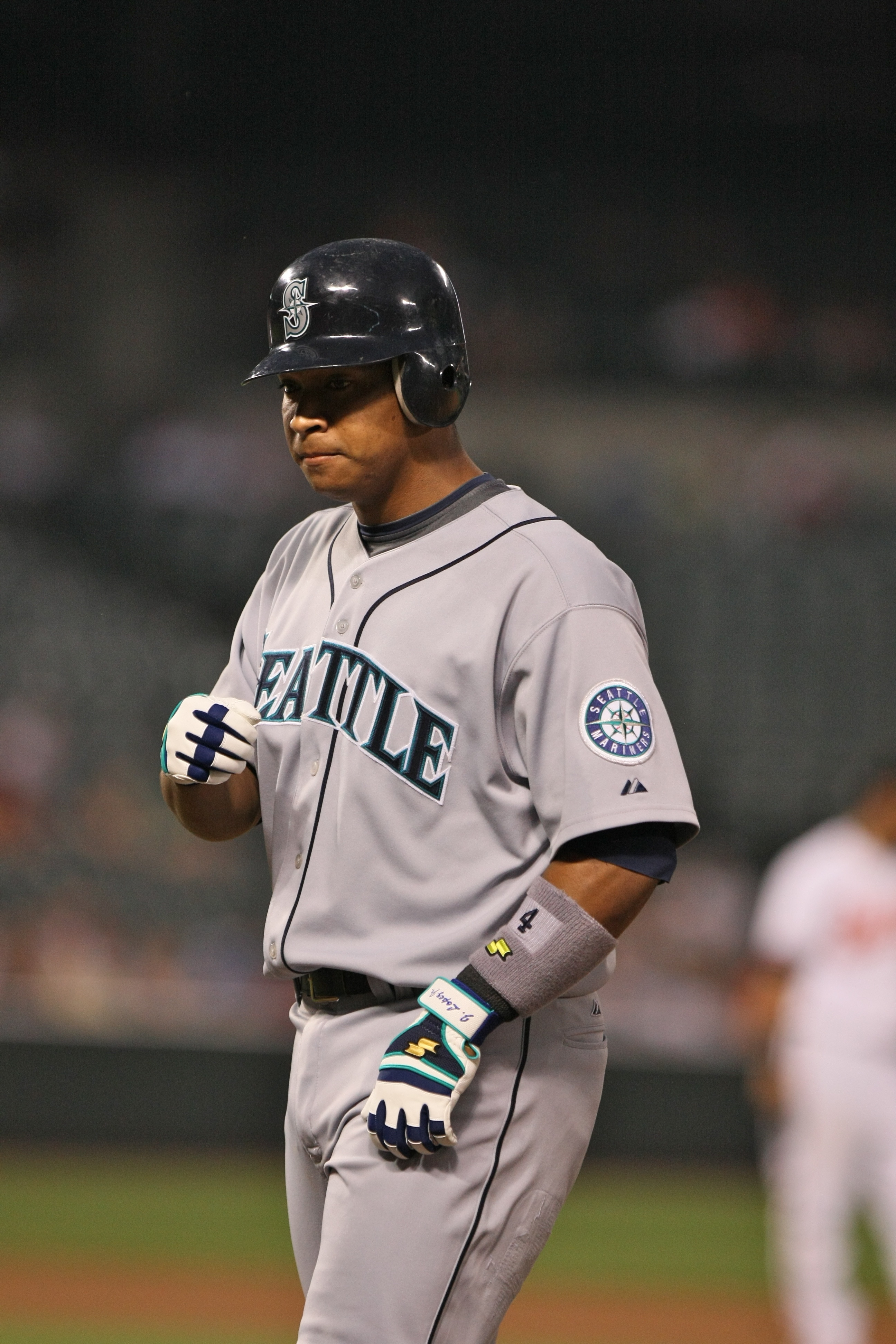 José López